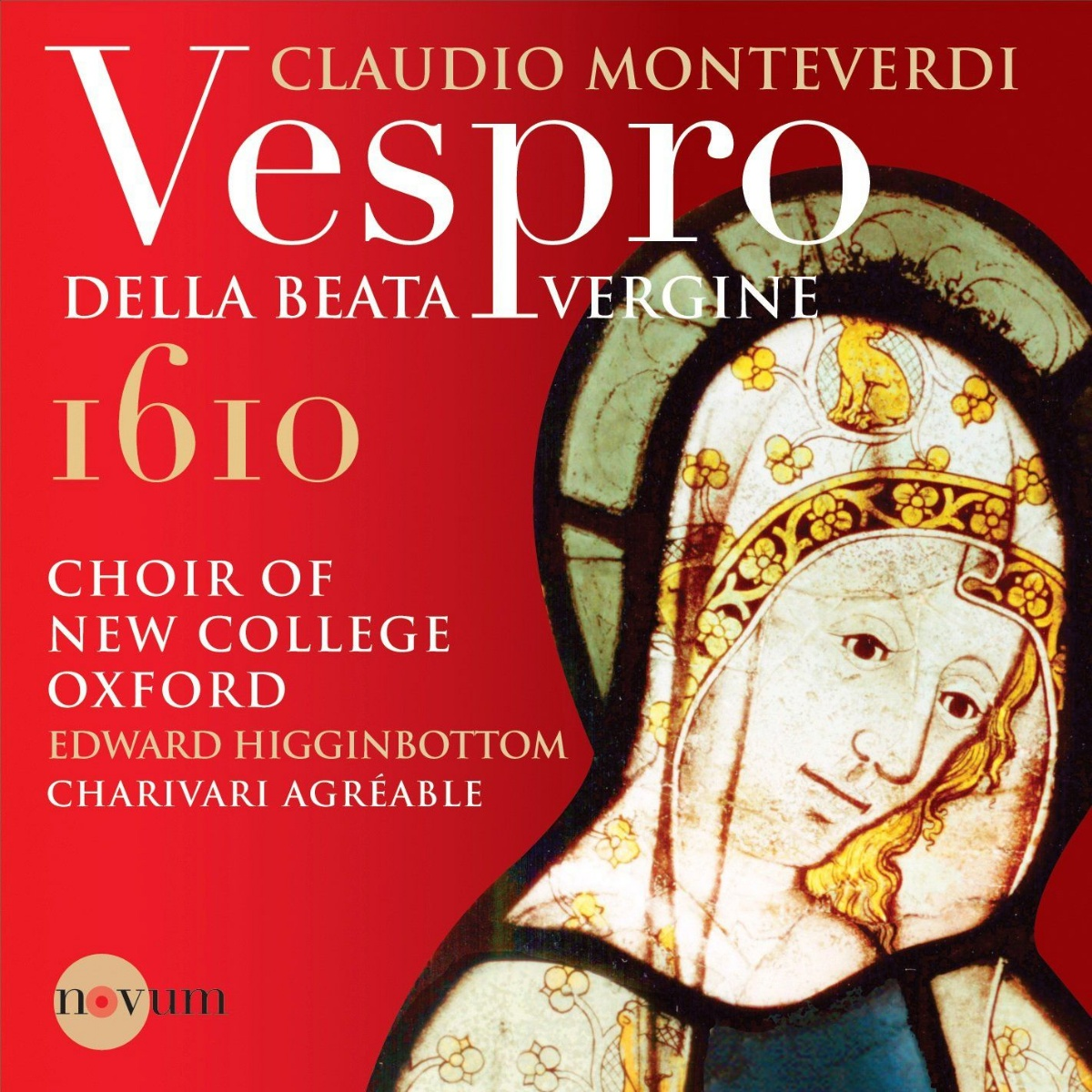 The CD cover from Claudio Monteverdi Vespro Della Beata Vergine (Montiverdi Vespers), by the Choir of New College Oxford, directed by Edward Higginbottom.